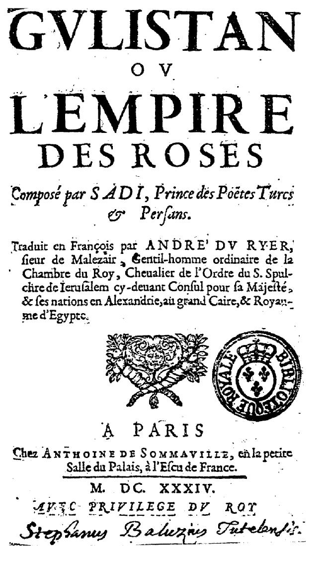 frontpiece of André du Ryer's translation of Gulistan